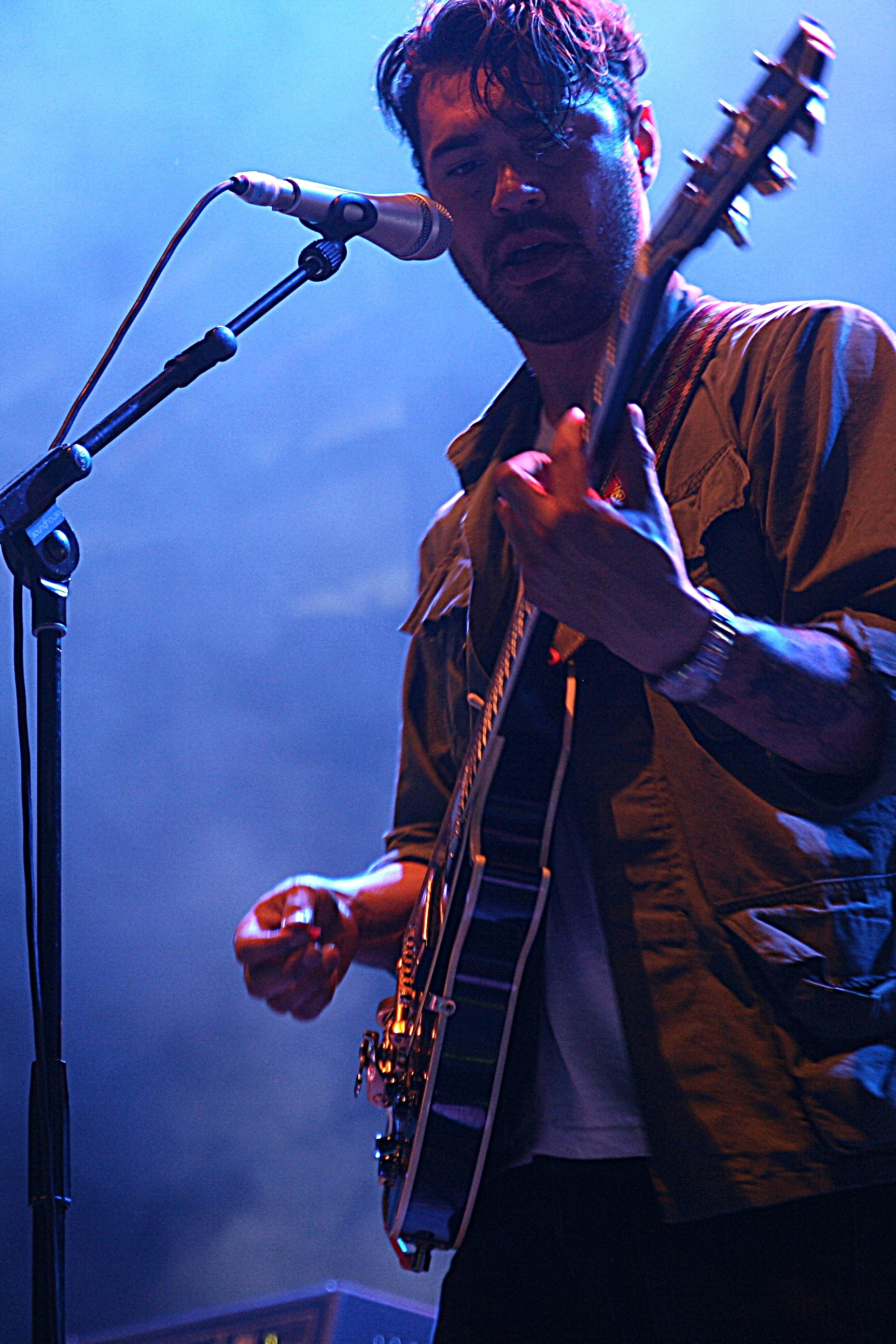 Hanni El Khatib stands on the Club Stage of Rock im Park-Festival 2013. Festivalsommer This photo was created with the support of donations to Wikimedia Deutschland in the context of the CPB project "Festival Summer".